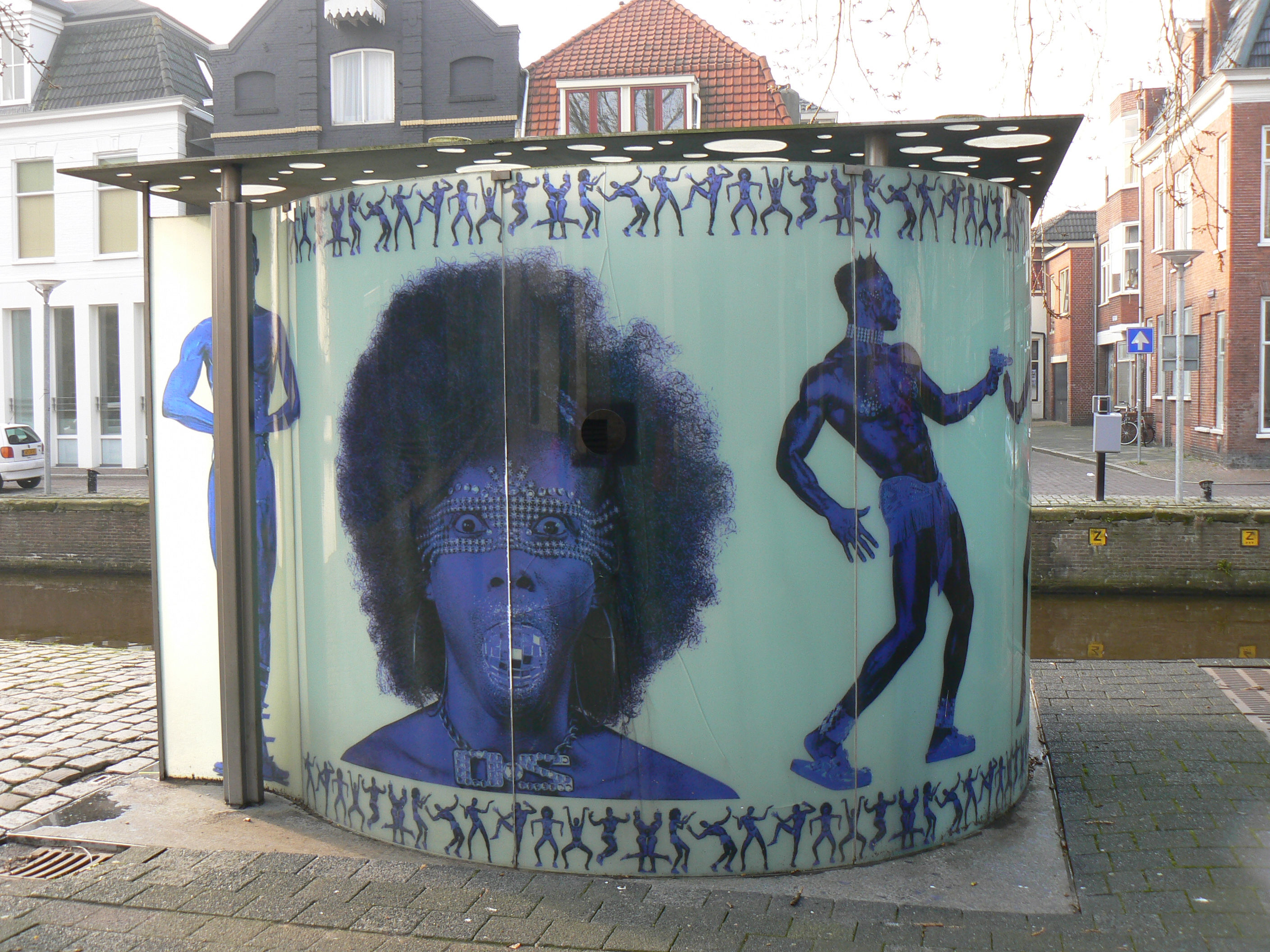 Folly (street toilet) by Rem Koolhaas/Erwin Olaf in Groningen/The Netherlands